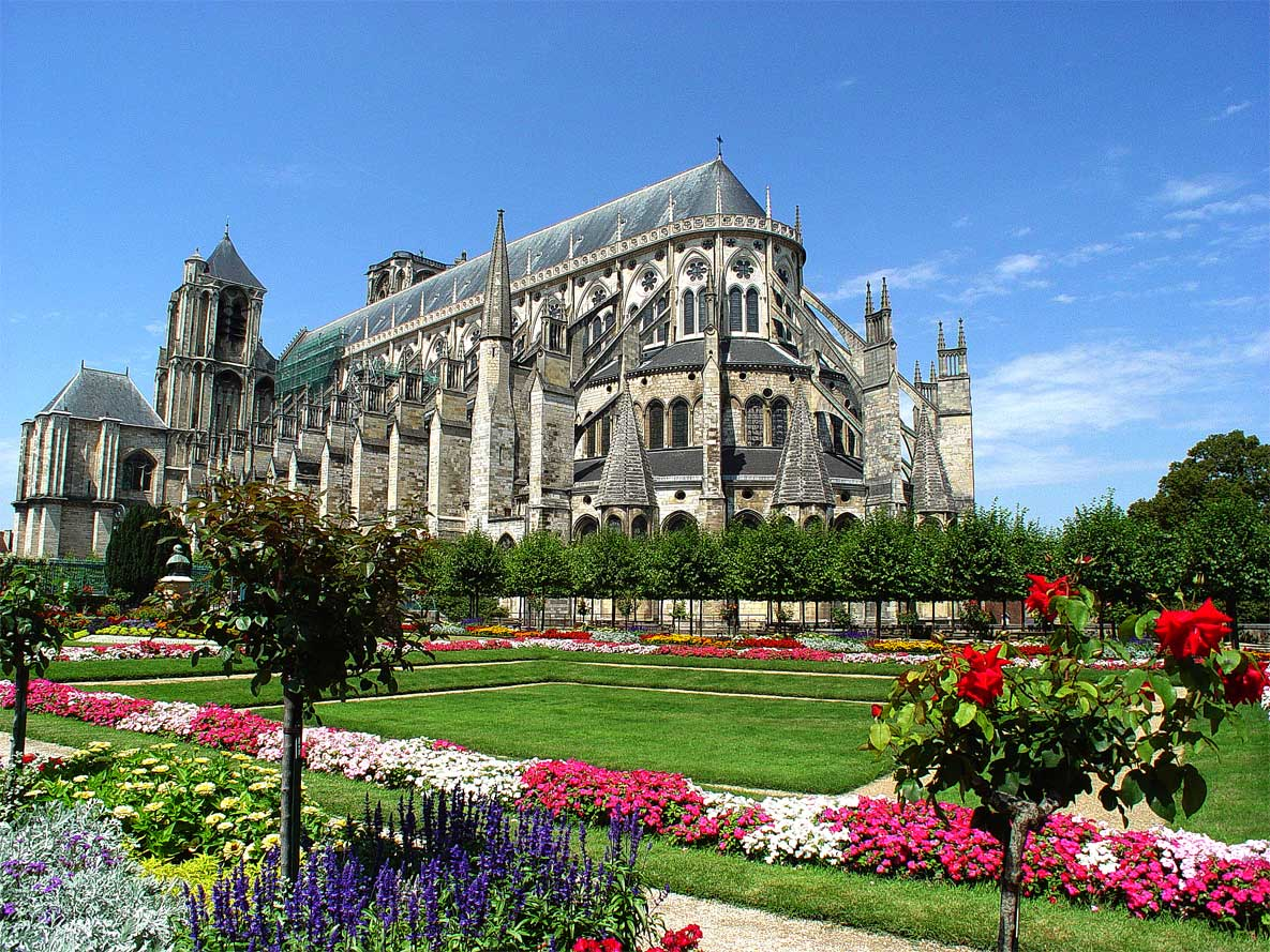 The Cathedral of St Etienne of Bourges, Bourges, France. Taken summer, 2004 with a Sony Cybershot DSC-F717.